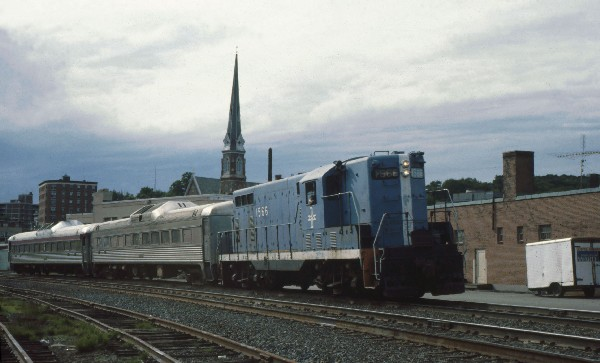 A B&M GP7 with an MBTA train at Fitchburg, probably in 1980